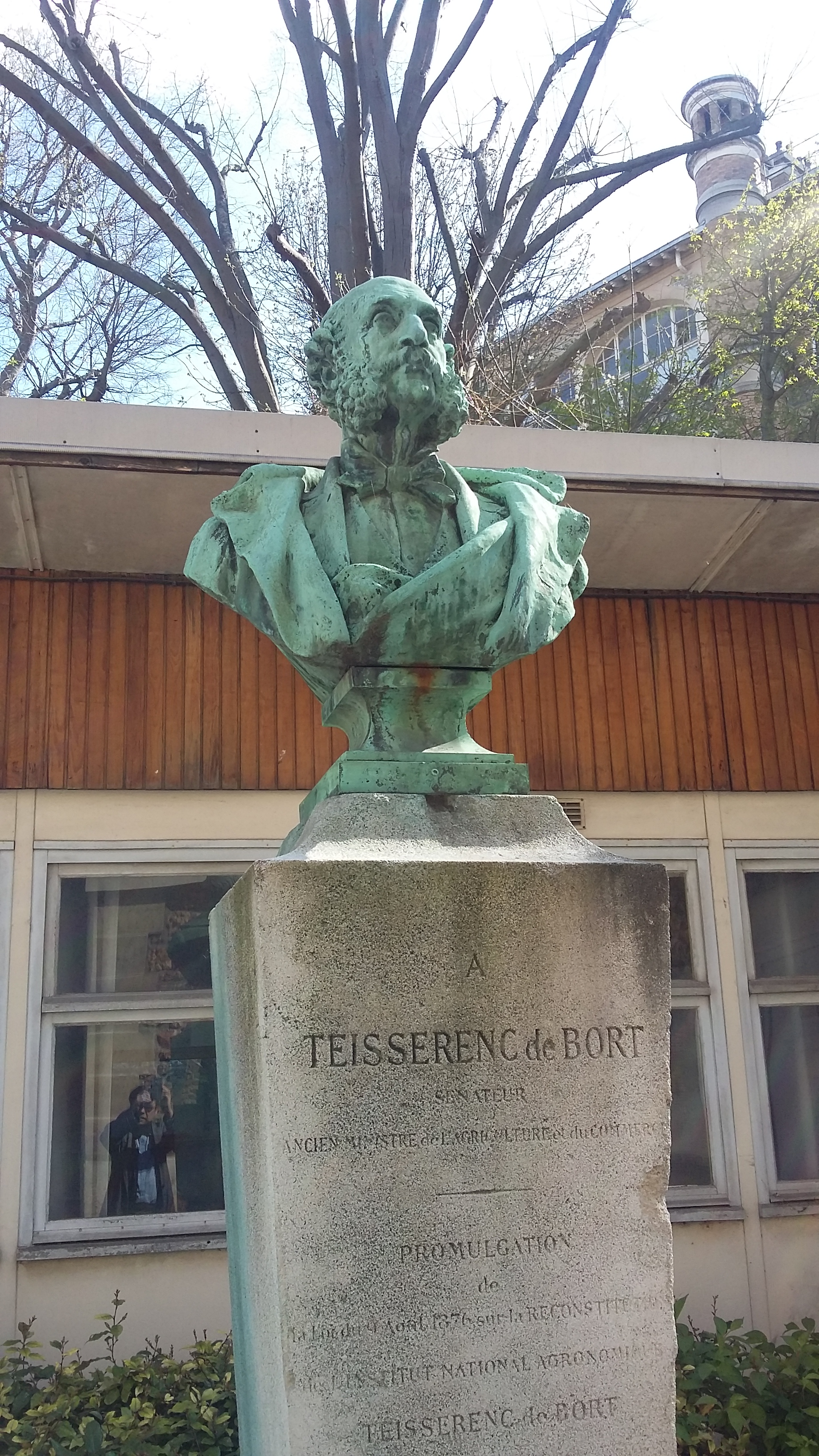 Statue of Pierre-Edmond Teisserenc de Bort (1814-1892), French politician and Minister of Agriculture. Picture taken at AgroParisTech.